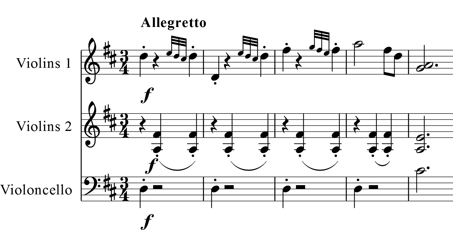 Joseph Haydn, Symphony No. 57, third movement, bar 1-5